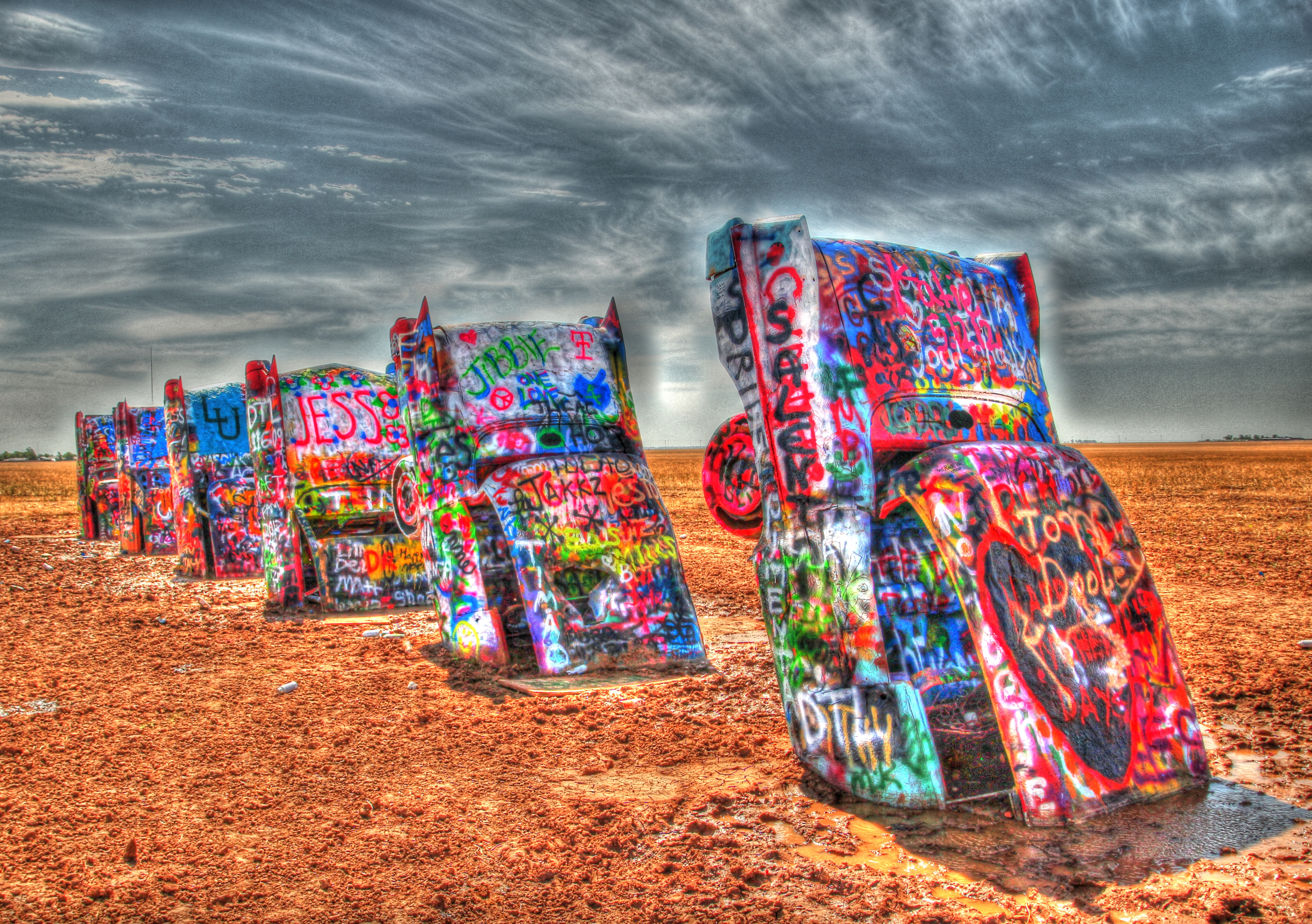 Cadillac Ranch It was originally located in a wheat field, but in 1997 the installation was quietly moved by a local contractor two miles (three kilometers) to the west, to a cow pasture along Interstate 40, in order to place it further from the limits of the growing city. Cadillac Ranch has appeared in American popular culture media.